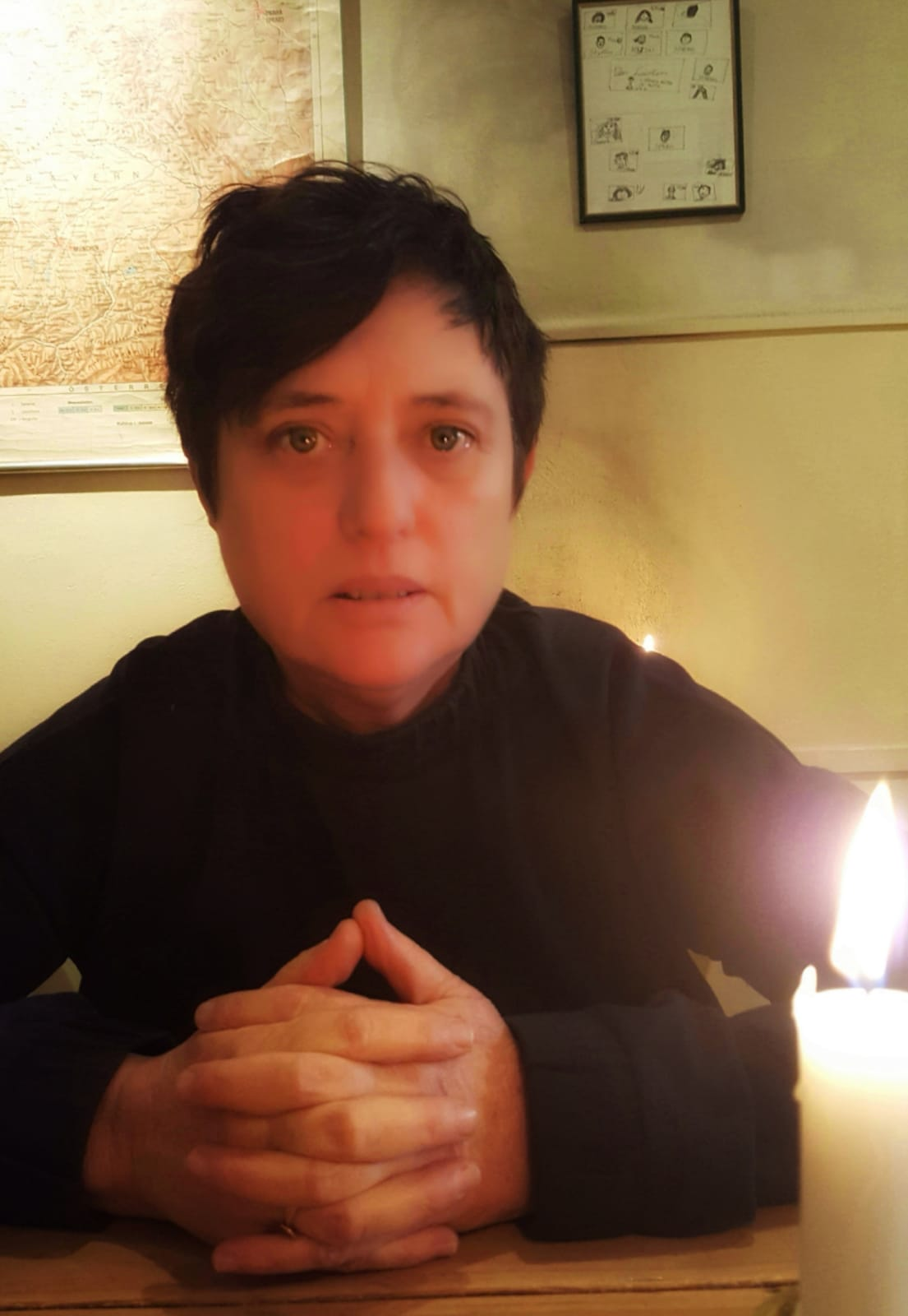 Ayelet Heller, film maker, film director